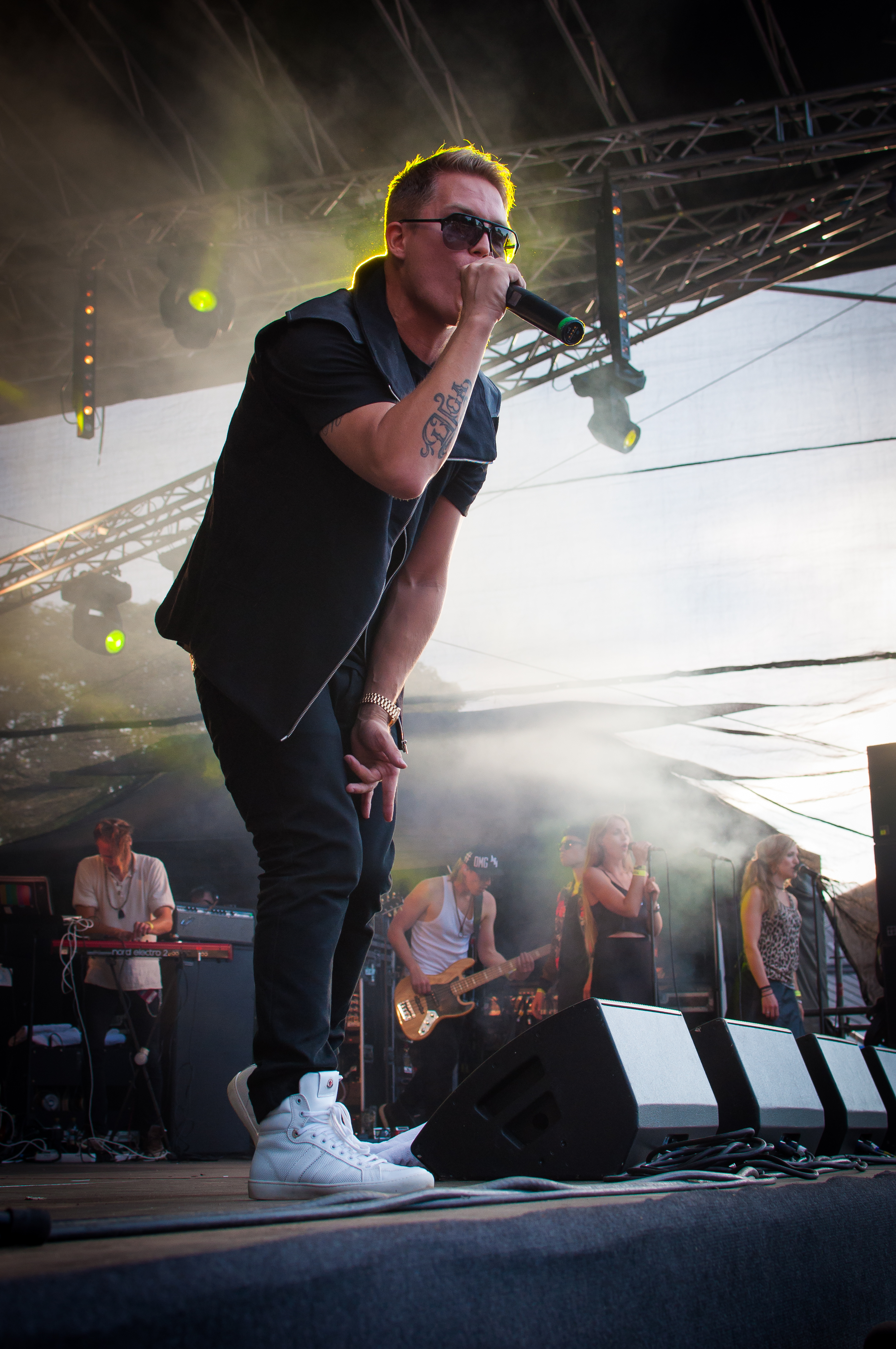 Finnish rapper and vocalist Cheek performing at the 2014 Rakuuna Rock festival in Lappeenranta, Finland.